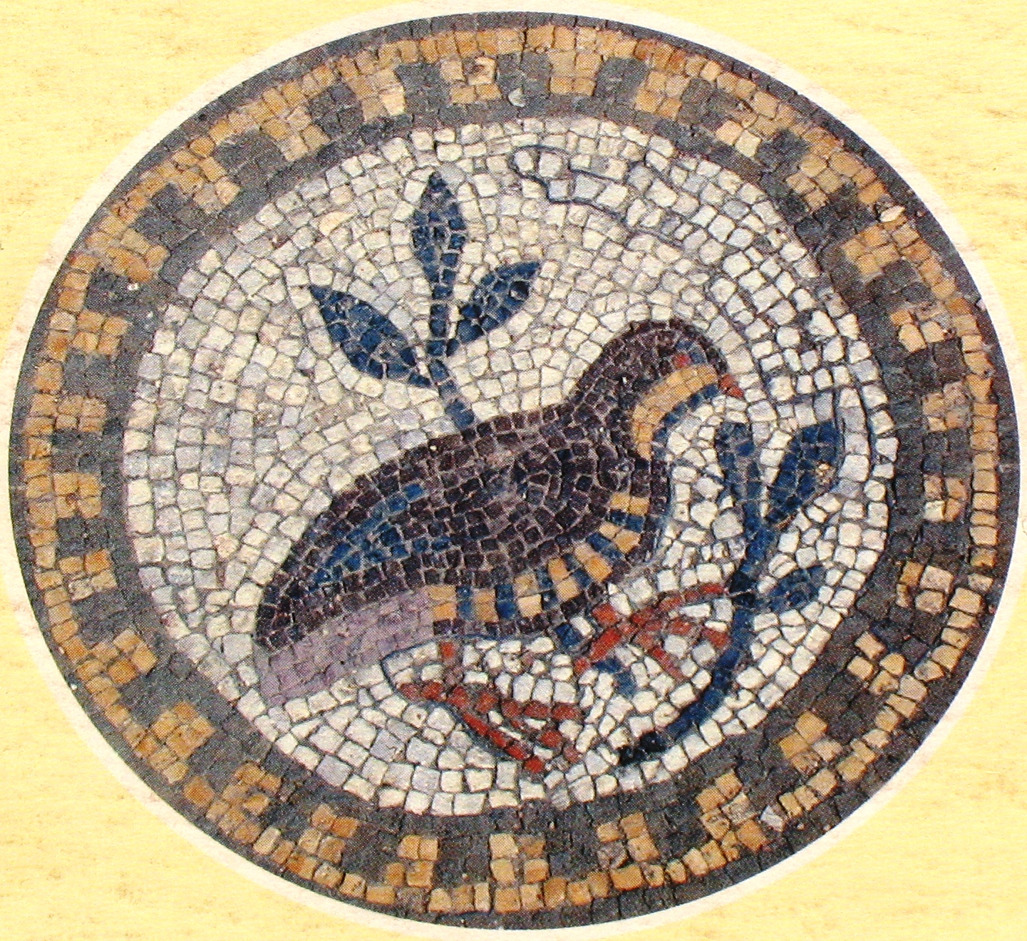 Khersones mosaic 6 century.